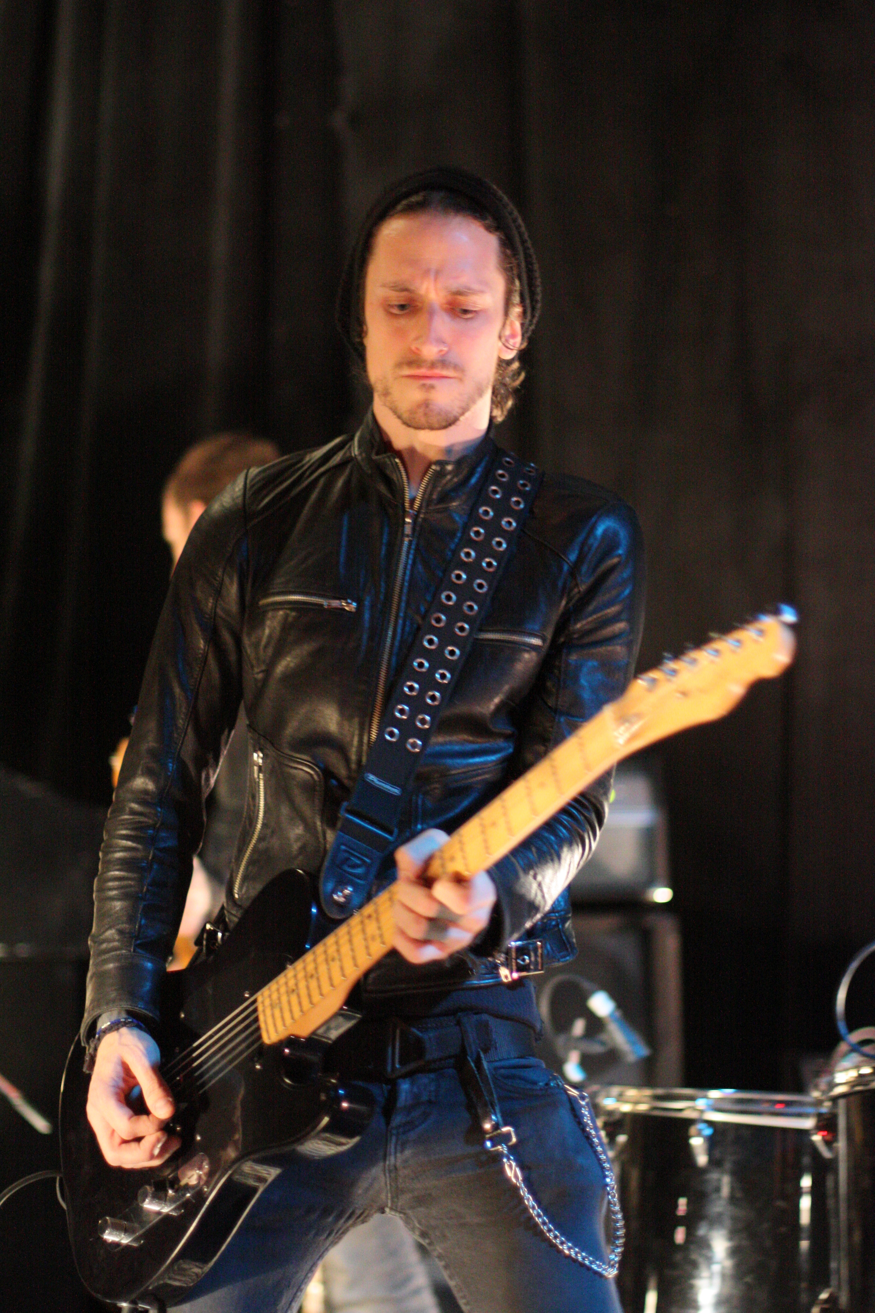 Ours @ School of Rock, S. Hackensack, NJ